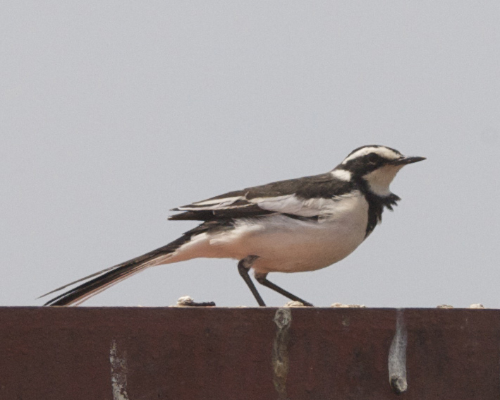 African Pied Wagtail Motacilla aguimp ssp Motacilla aguimp vidua Akagera National Park, Rwanda 15th. August 2009 Distribution: 690V1666